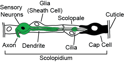 A diagrammatic depiction of the primary structures of a chordotonal organ